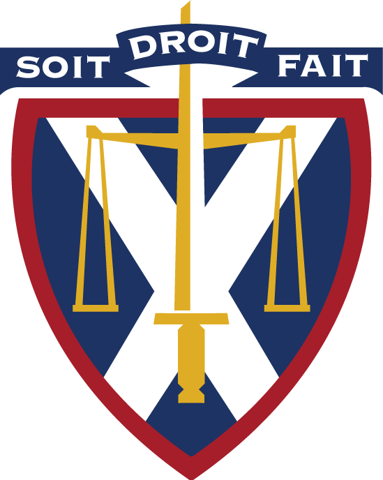 The crest of Queen's Law in Kingston, Ontario